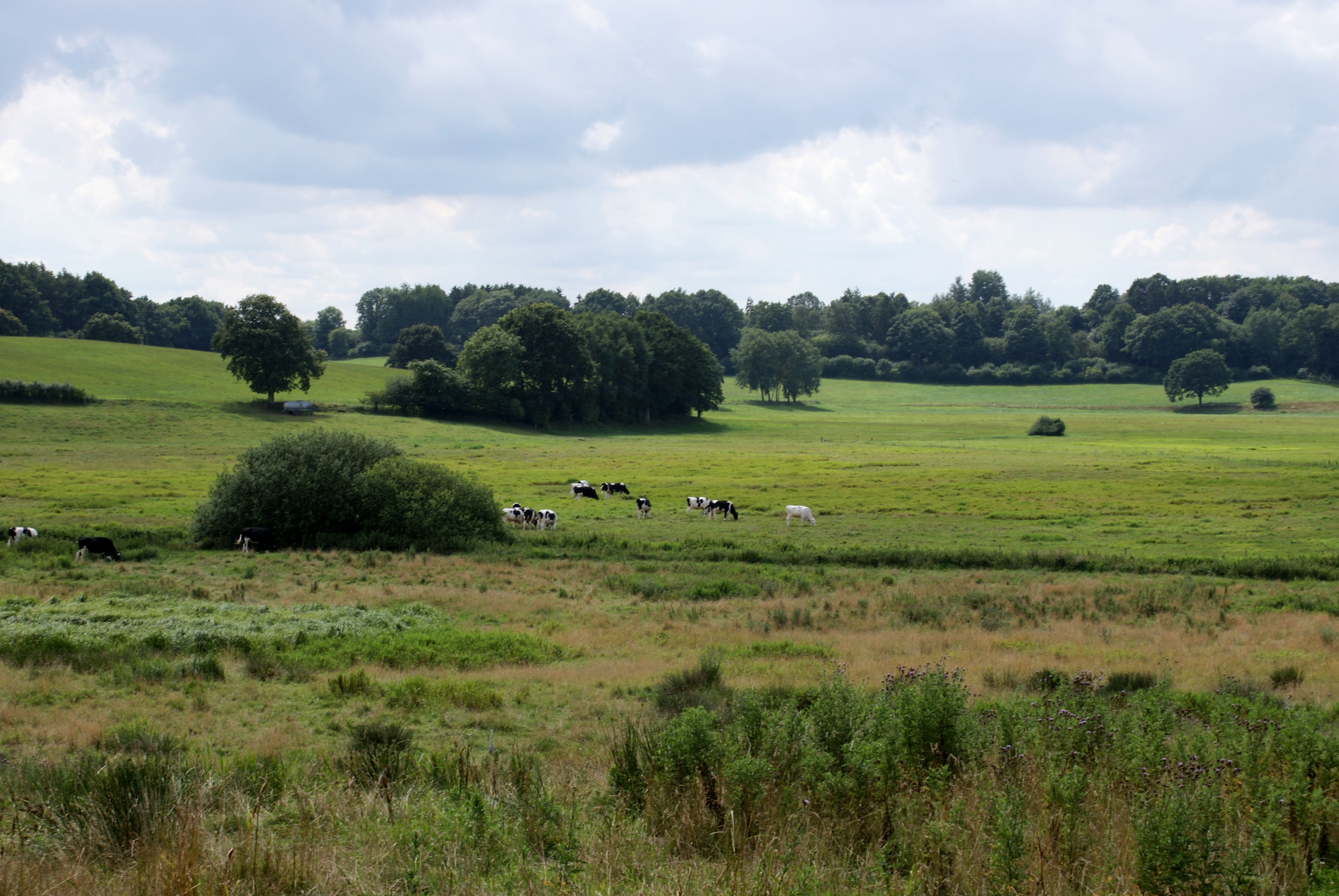 Traventhal - vale of the Trave-river